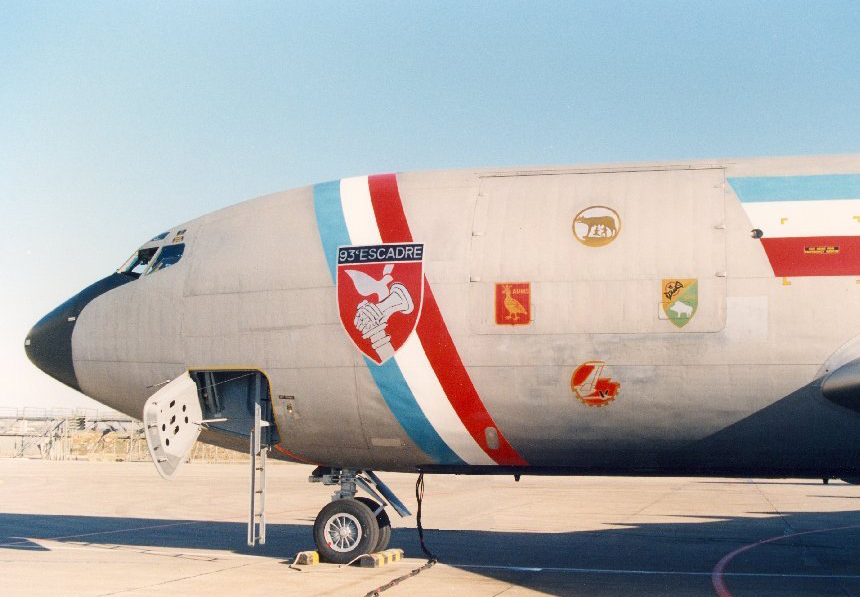 C135 Fr